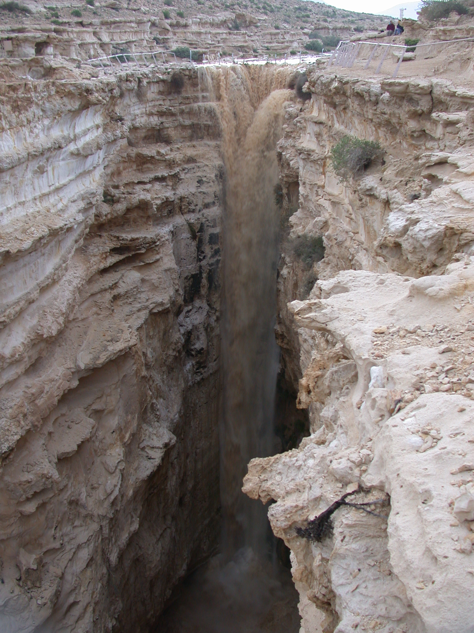 Flash flood in Ein Avdat, Negev, Israel, March 16, 2007.